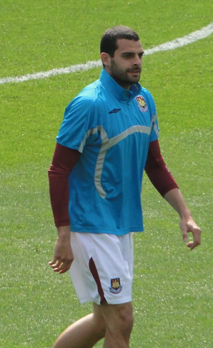 West Ham player Ilan warming-up before their 3-2 home win at Upton Park on 24 April 2010 against Wigan